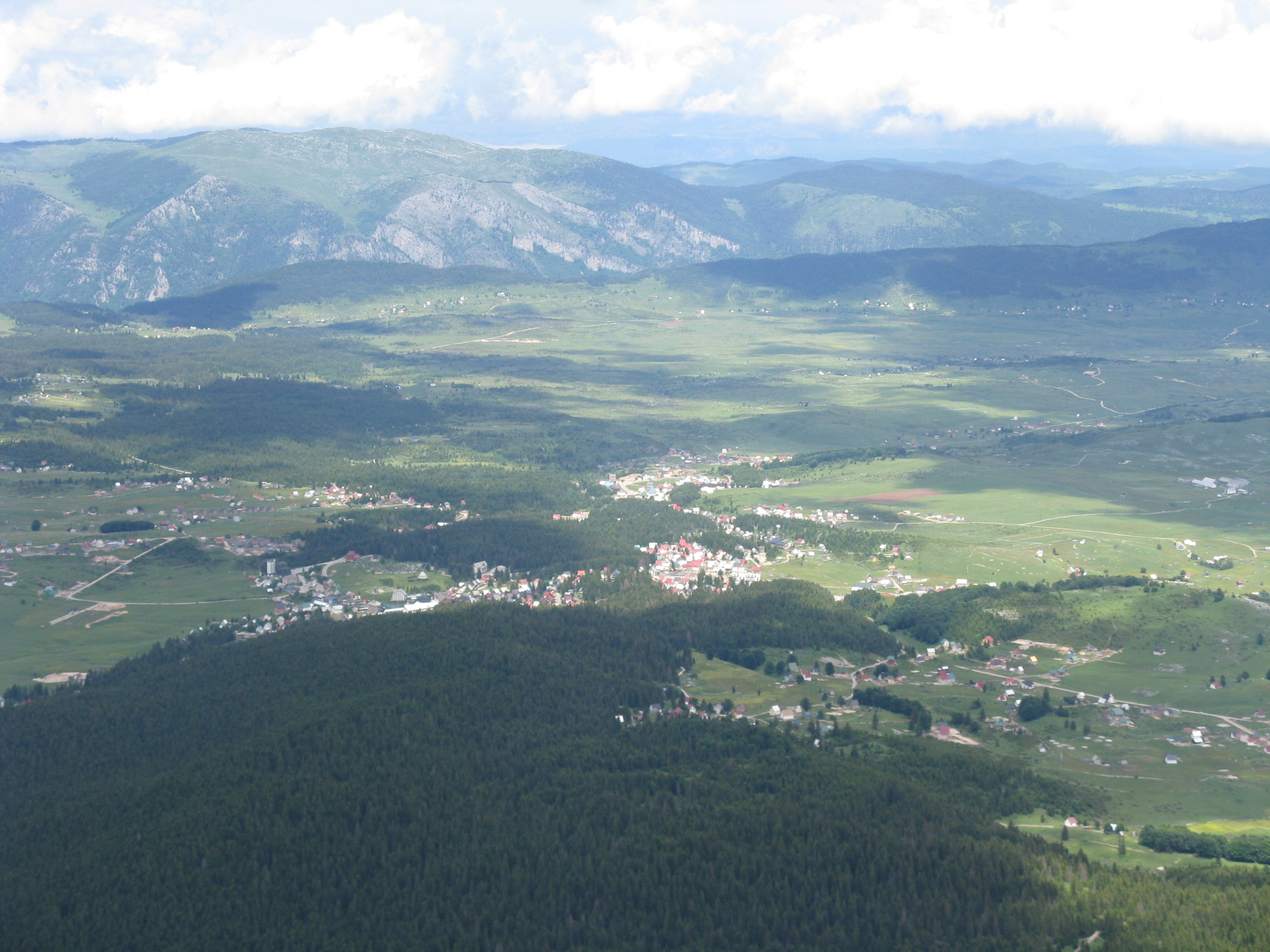 Žablak from Savin Kuk